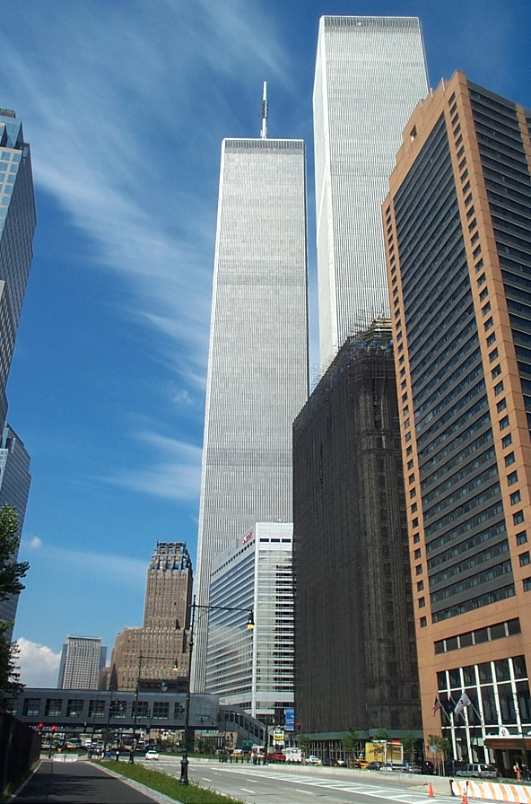 Marriott Hotel (3 World Trade Center) with the towers of 1 and 2 World Trade Center. This was taken by me (Brandon McCombs) in July of 2001 using a Kodak digital camera. The building on the far right of this photo is the New York Marriott Financial Center Hotel, which was only slightly damaged on September 11, 2001, and remains open for business.